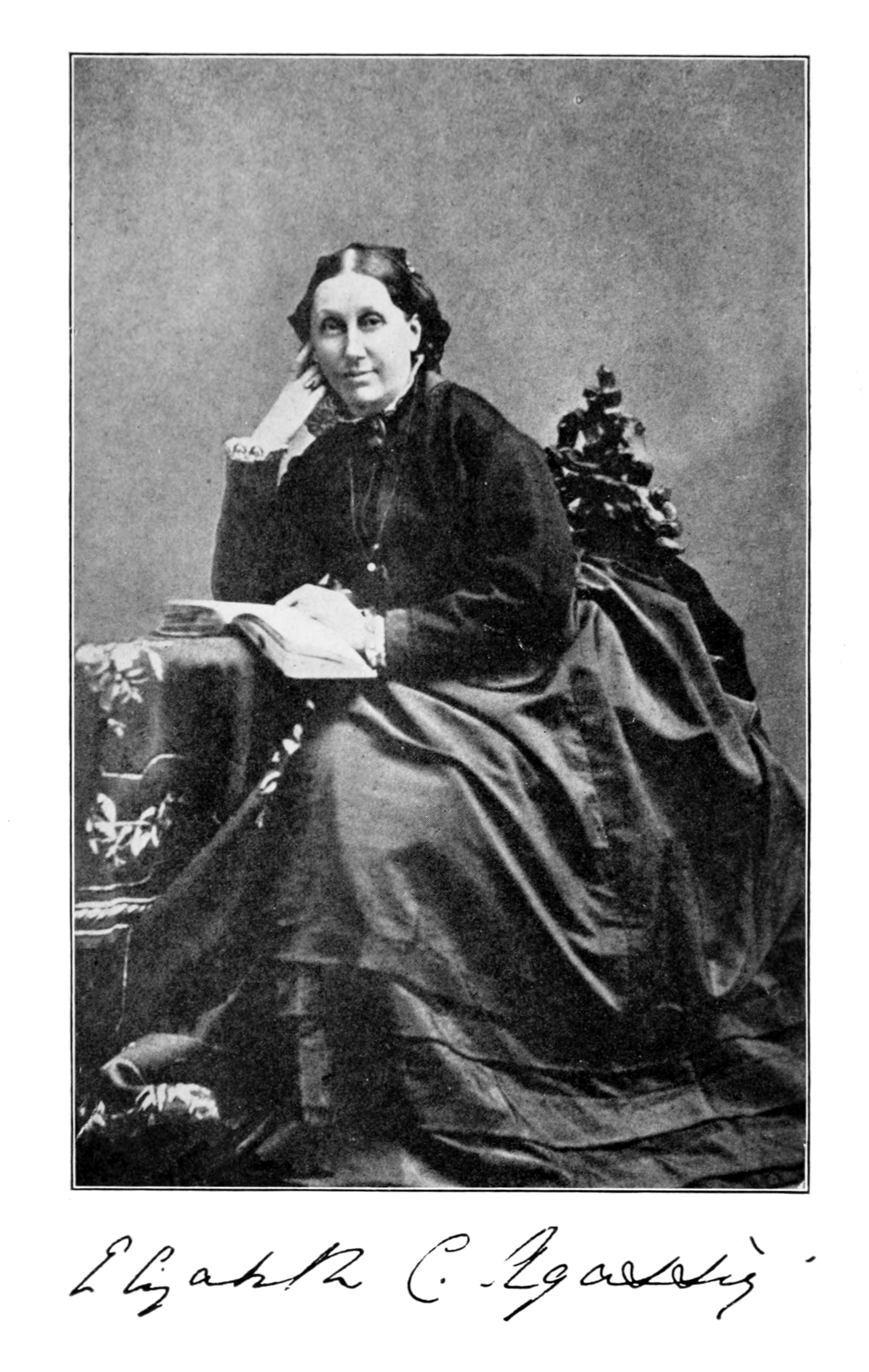 Elizabeth Cabot Agassiz Portrait